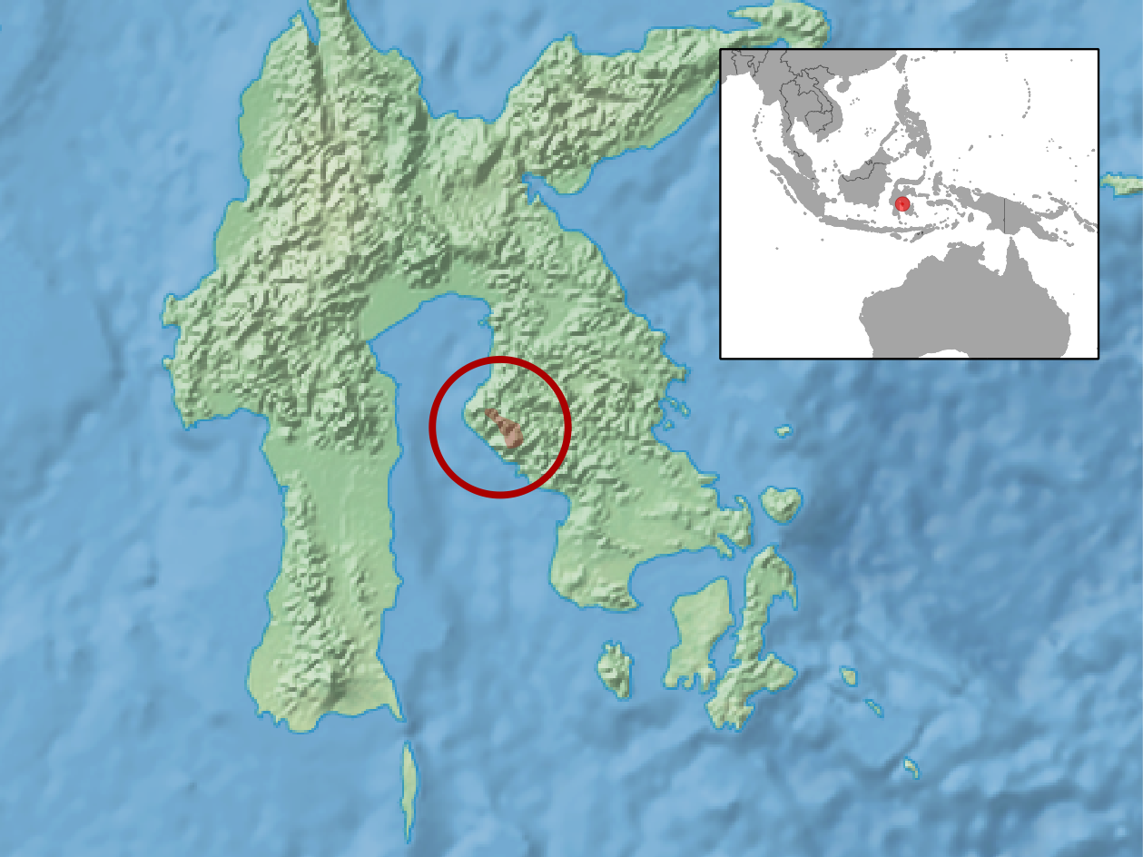 geographic distribution of Taeromys arcuatus